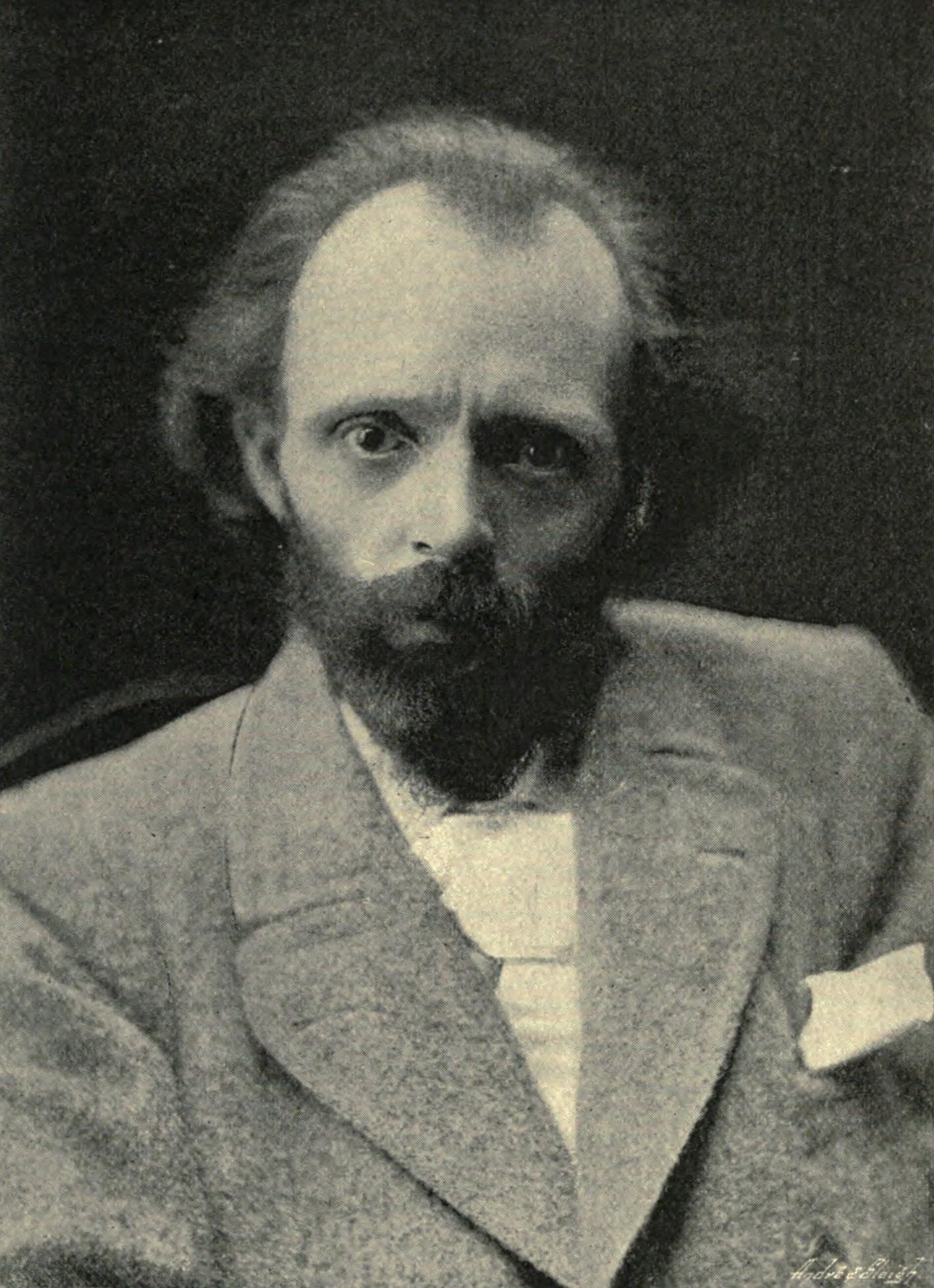 Portrait of Hall Caine